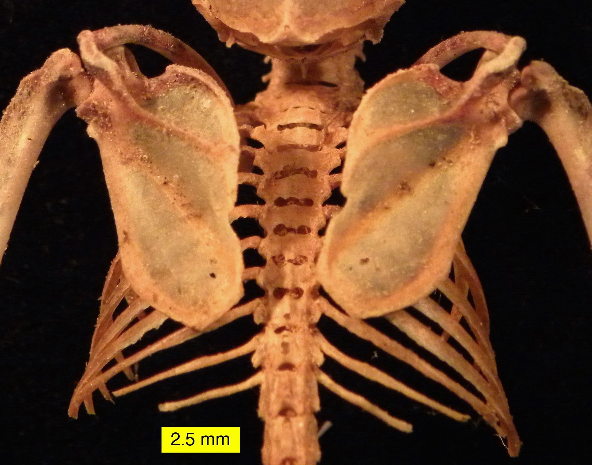 Scapulae, spine and ribs of Eptesicus fuscus (Big Brown Bat) from Wooster, Ohio, USA.